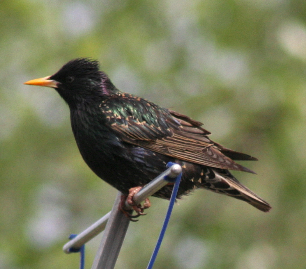 Feeding a nest full of ravenous chicks can be hard work - this common starling is having a quick rest perched on the Tv aerial of the staff quarters at the Royal Golf Hotel